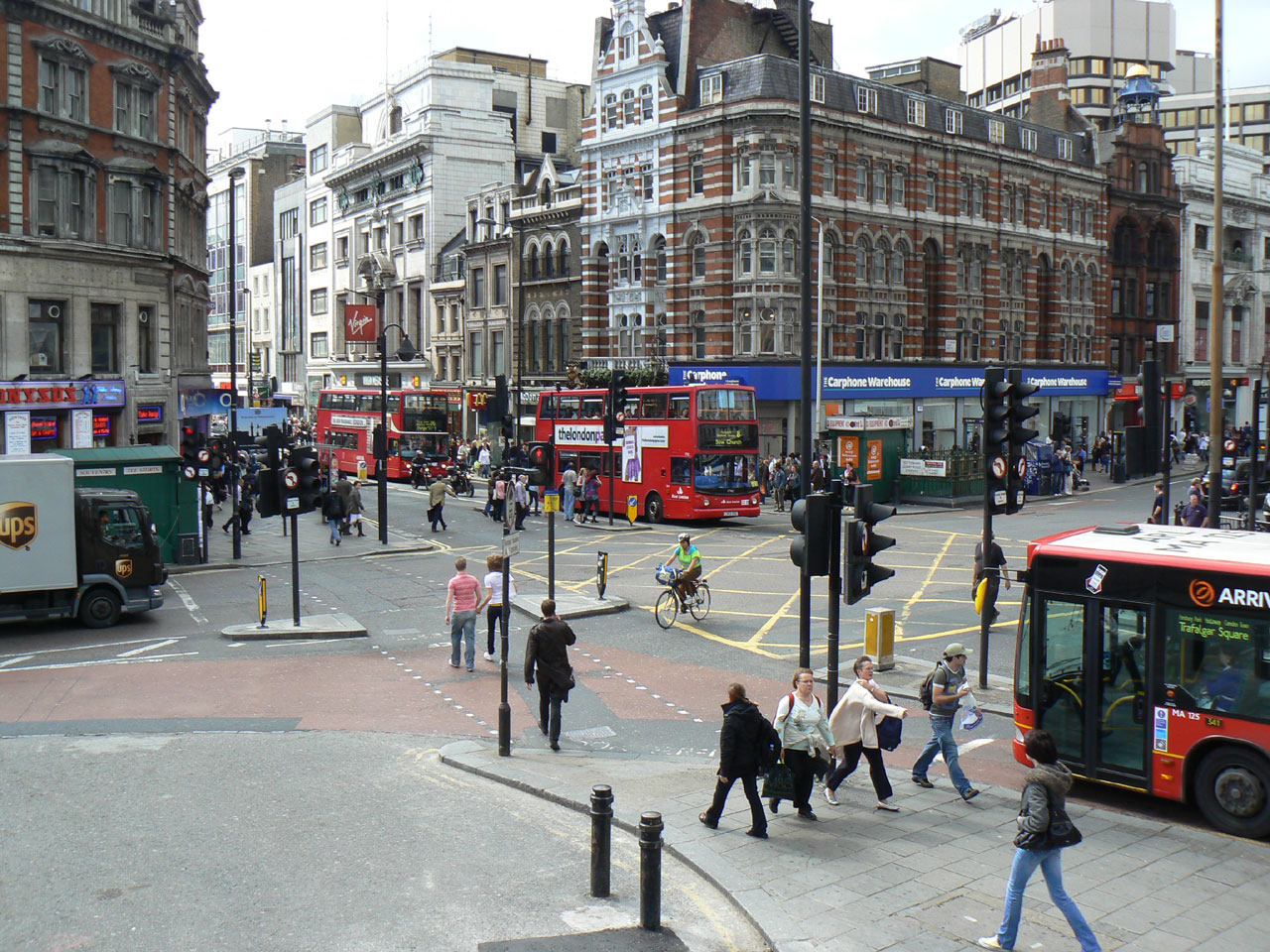 View of StGilesCircus, London